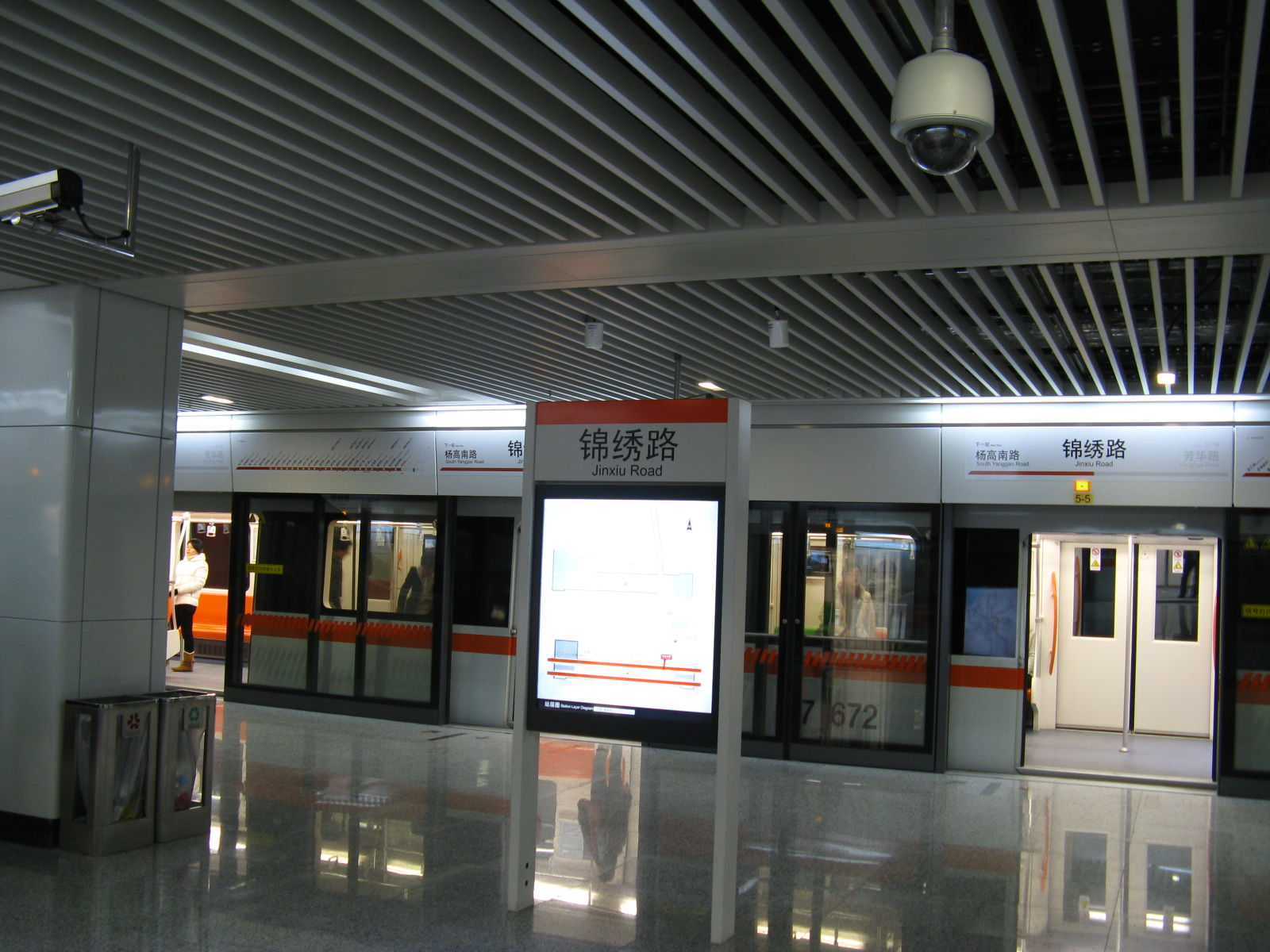 Jinxiu Road Station Line7 Shanghai Metro